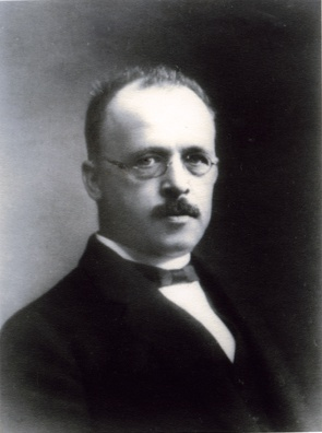 Otto Alexander Paul Trüstedt (30 March 1866, Paris, France - September 11, 1929, Helsinki, Finland) who developed the prospecting methods leading to the discovery of the Outokumpu deposit (Finland). The mineral trüstedtite is named in his honor. Further biographical information: (Wikipedia, in Finnish) Photo obtained from and considered public domain due to its age.